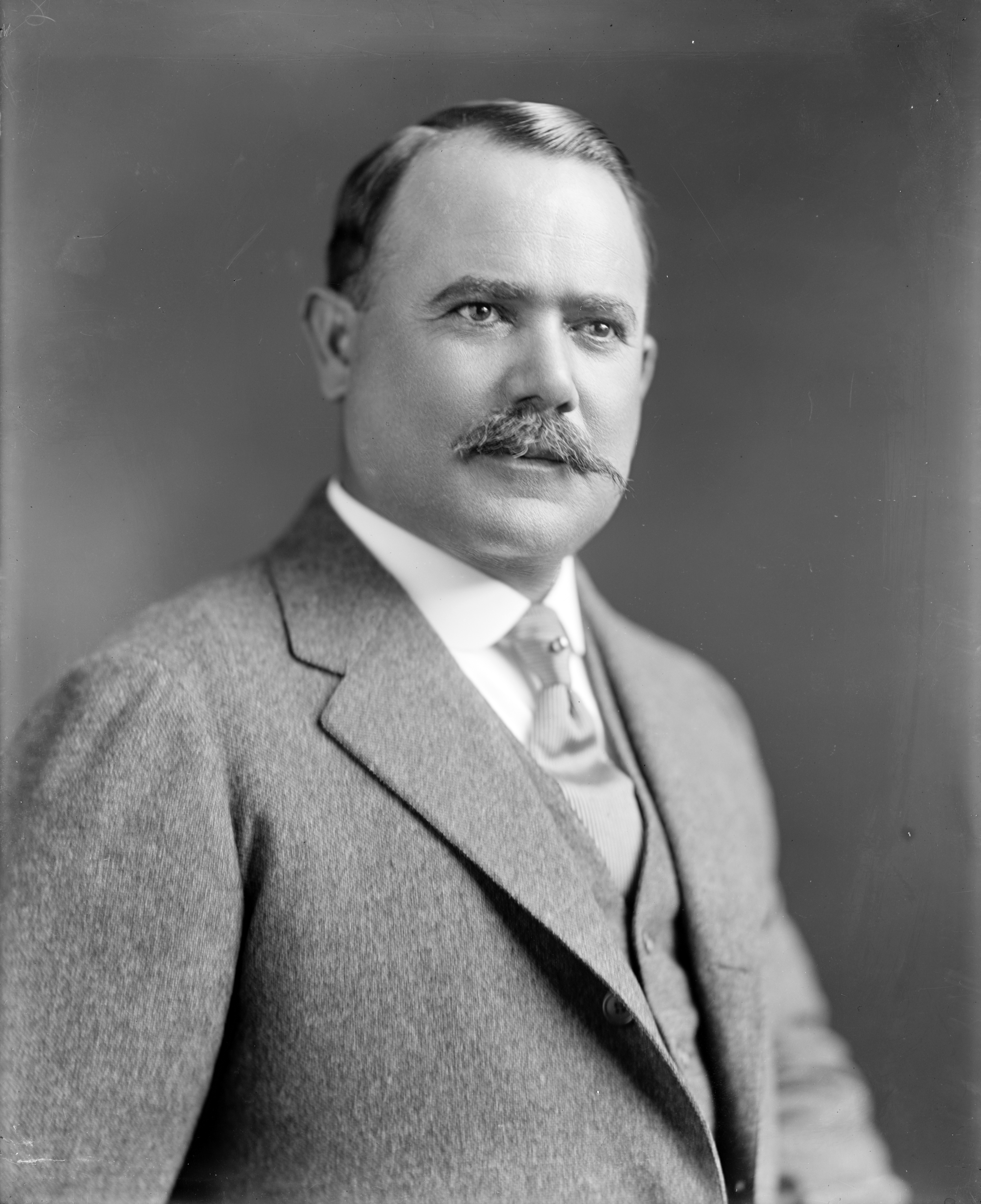 Álvaro Obregón, former President of Mexico (1920 - 1924).